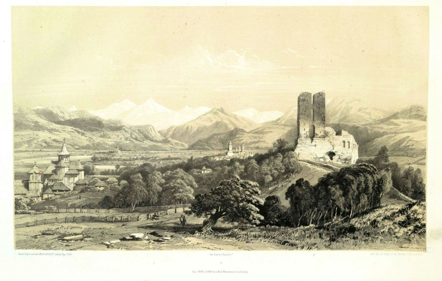 Curtea de Arges în secolul XIX. Litografie după o pictură de Michel Bouquet.